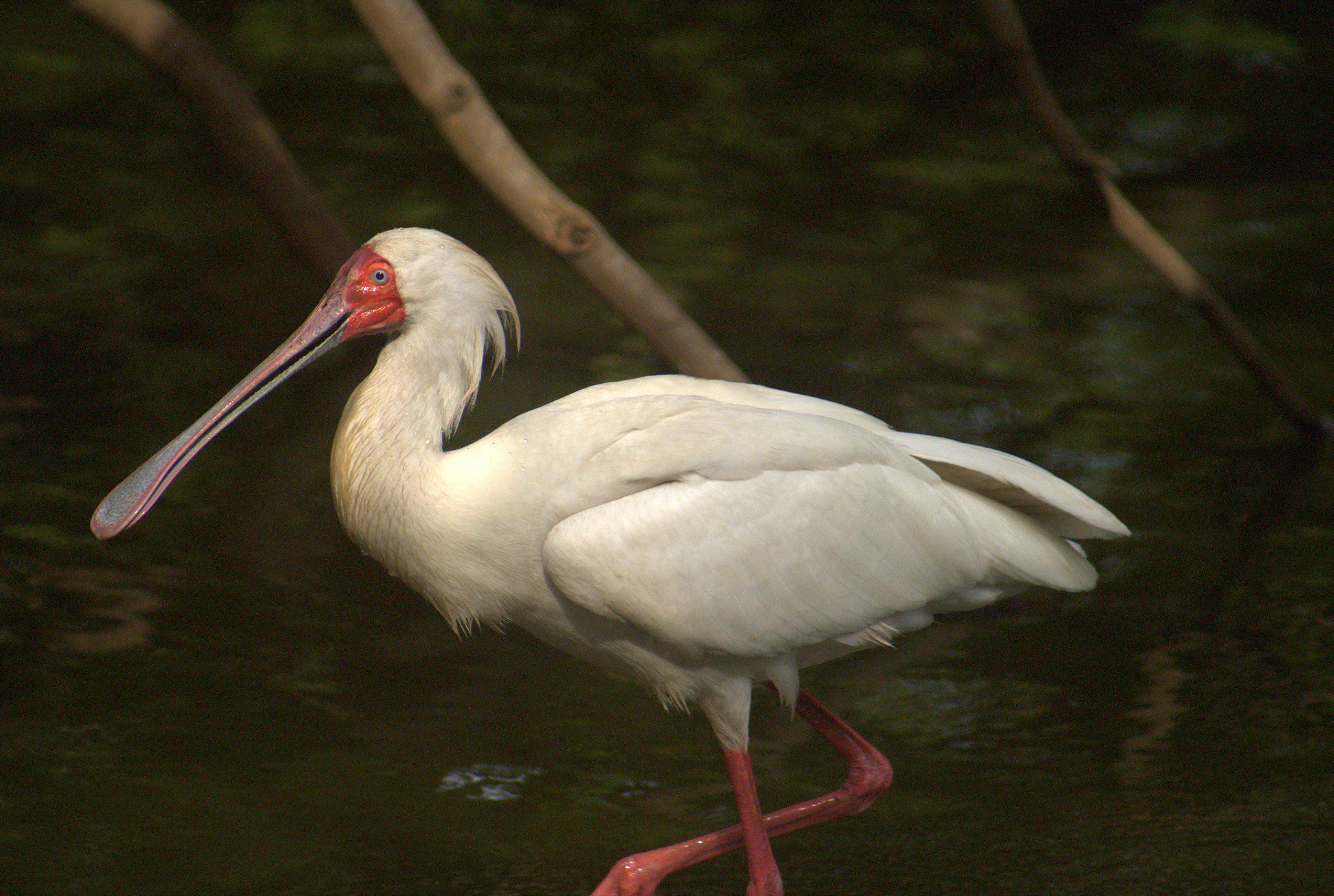 African Spoonbill (Platalea alba). Botanical Gardens in Durban, South Africa